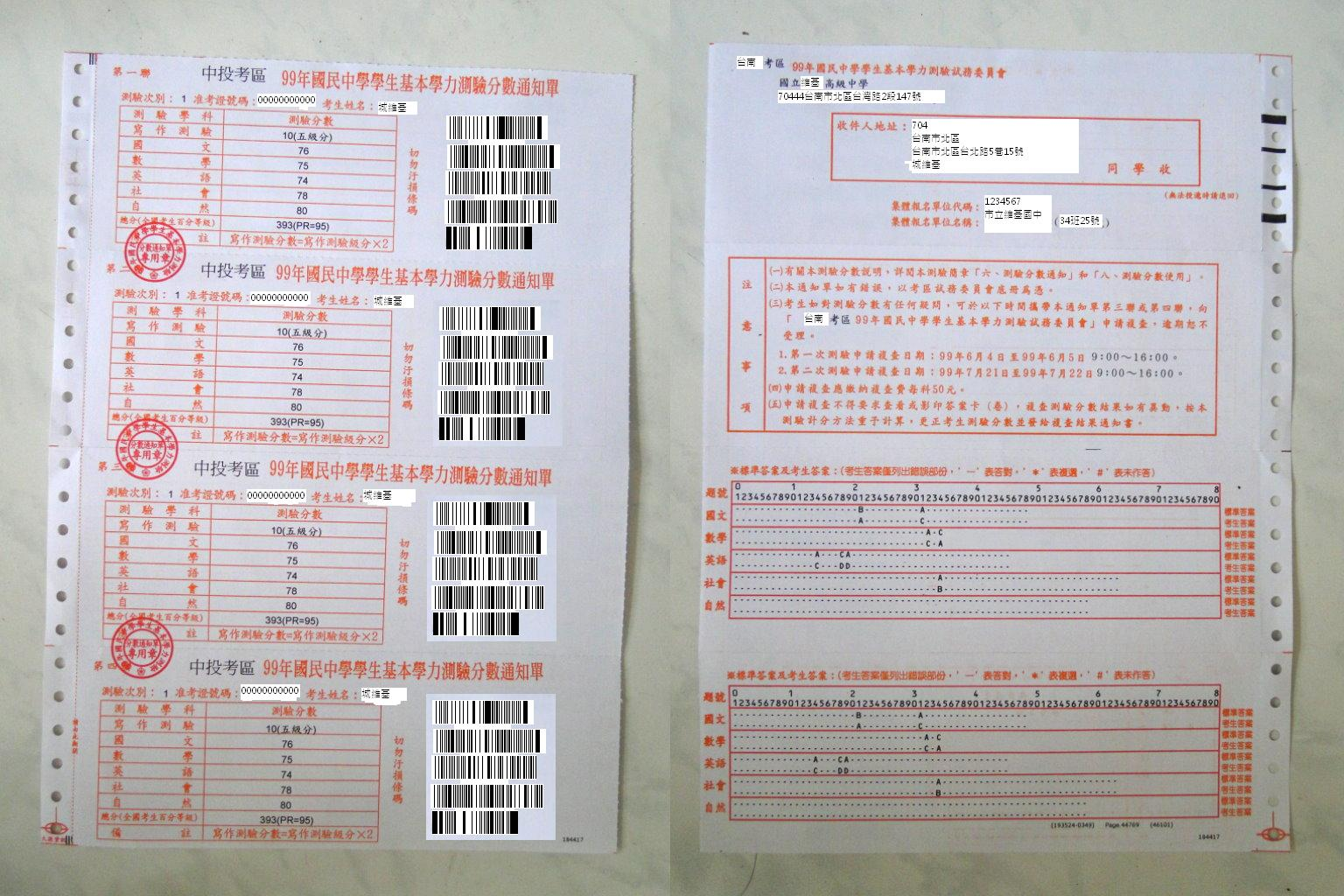 The transcripts example of 2010 Basic Competence Test for Junior High School Students in Taiwan, R.O.C. 中文（台灣）: 中華民國（台灣）99年度國民中學學生基本學力測驗中投考區成績單。